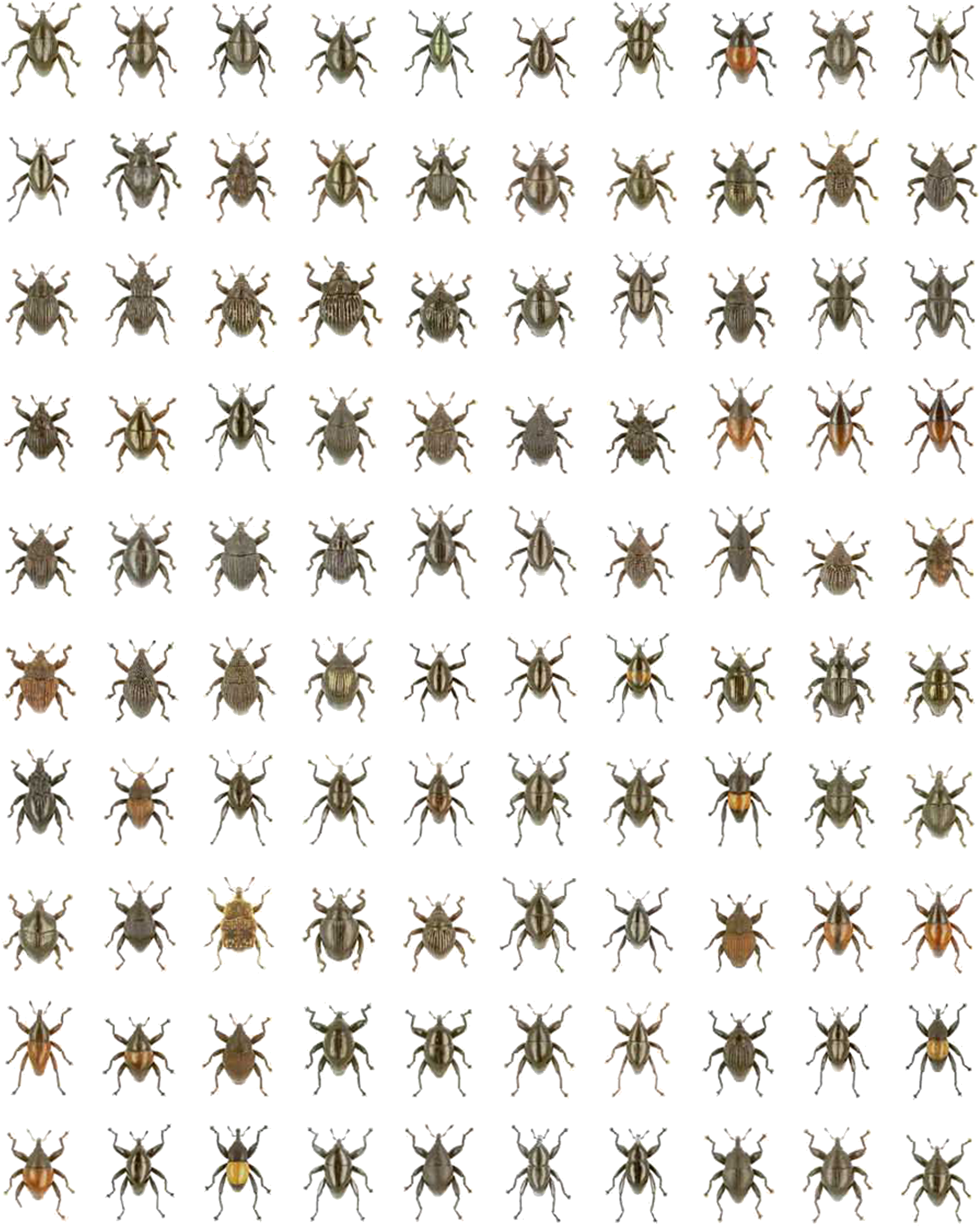 Compilation of 100 Trigonopterus species. For individual images, see Category:Media from Riedel et al. 2013 - 10.3897/zookeys.280.3906.